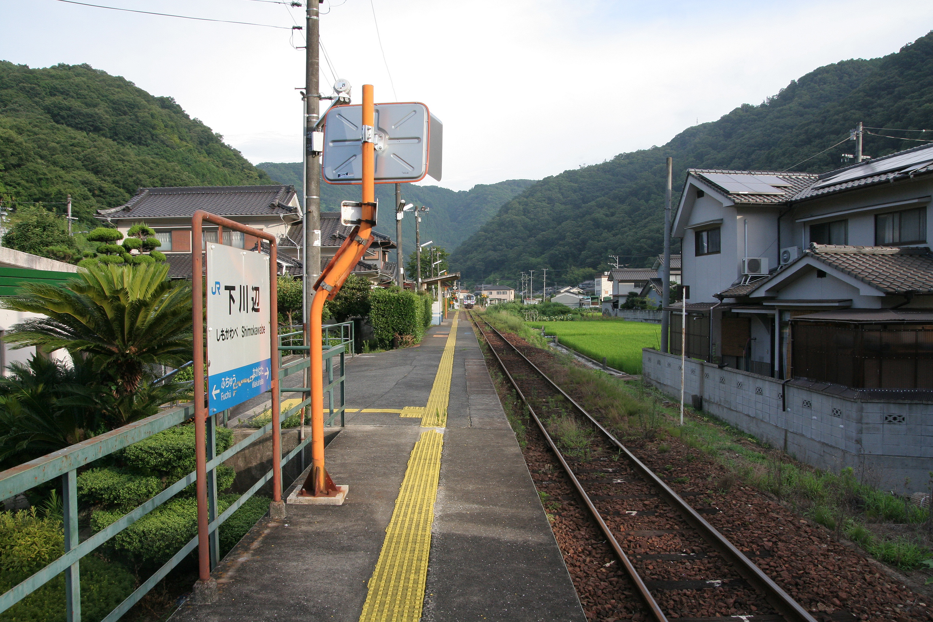 West Japan Railway Fukuen Line Shimokawabe Station enclosure